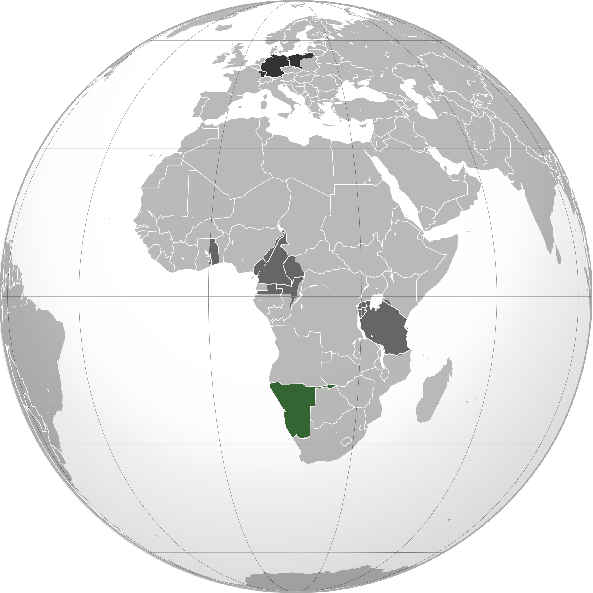 Green: Territory comprising German colony of German South-West AfricaDark gray: Other German possessionsDarkest gray: German Empire Note: The map uses the borders of the present-day, but the historical extent for German territories are depicted. thumb